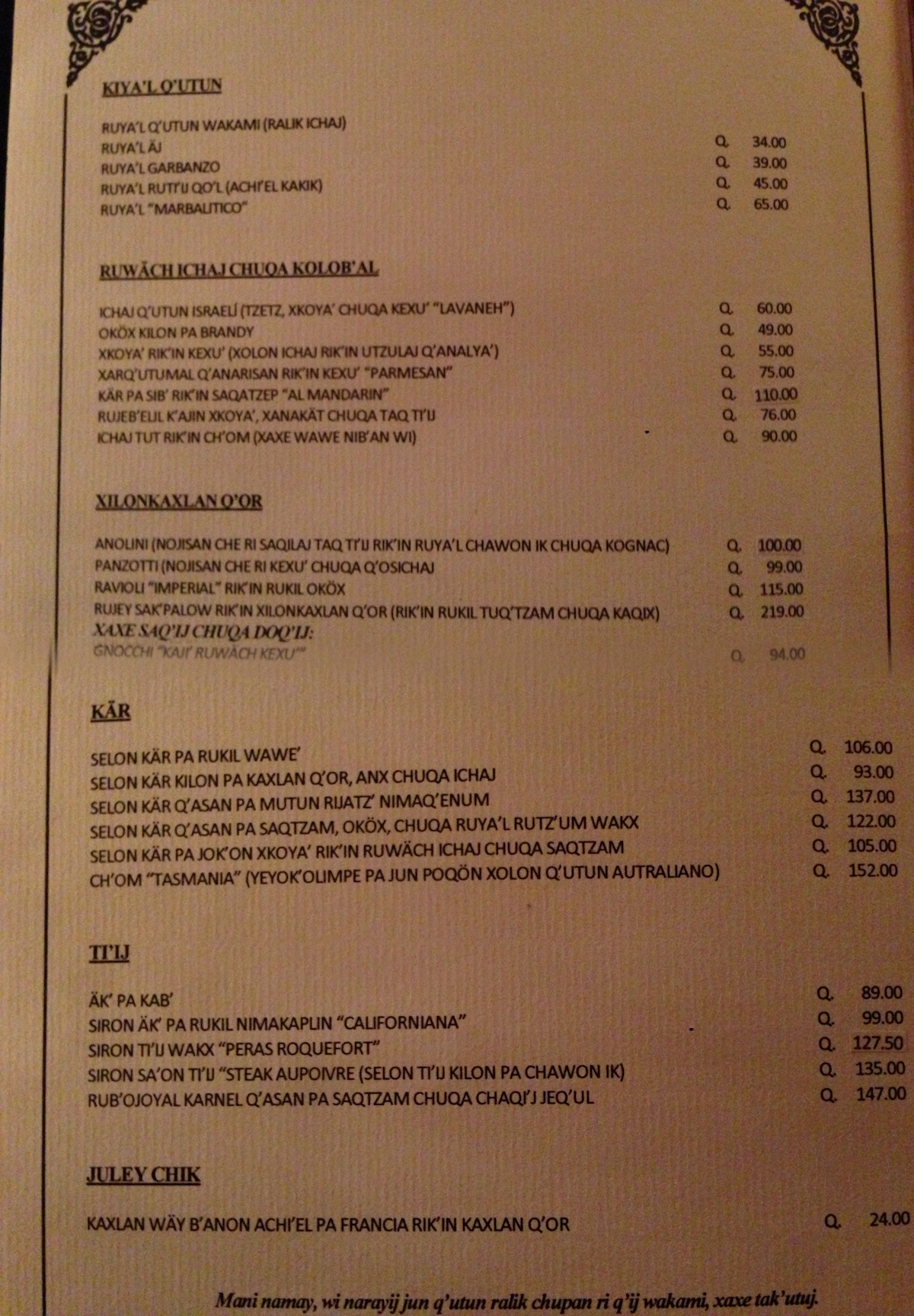 Dinner menu in a Maya language, Antigua Guatemala, 2013